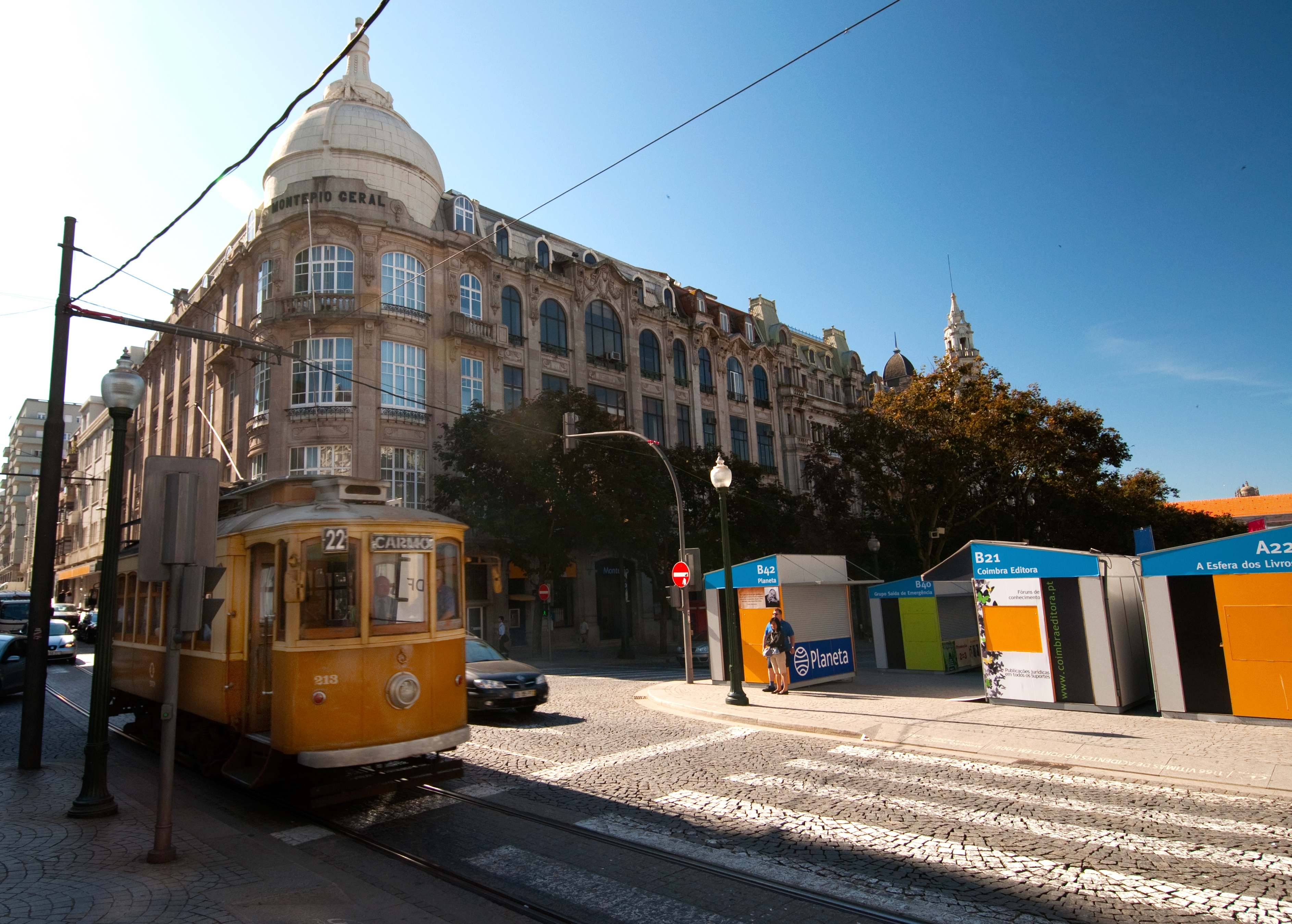 During my five days in Porto, I never saw even a trace of a cloud. I'll tell ya, beautiful weather really adds to the allure of a city!